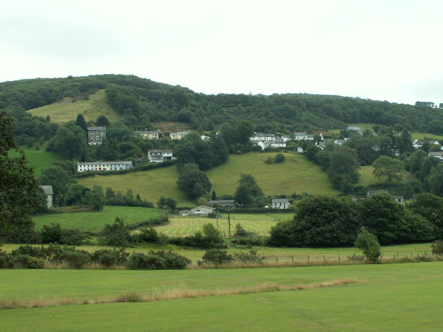 Goginan and Dollwen. The village of Goginan on the A44. Looking S, the A44 runs along the top line of houses.